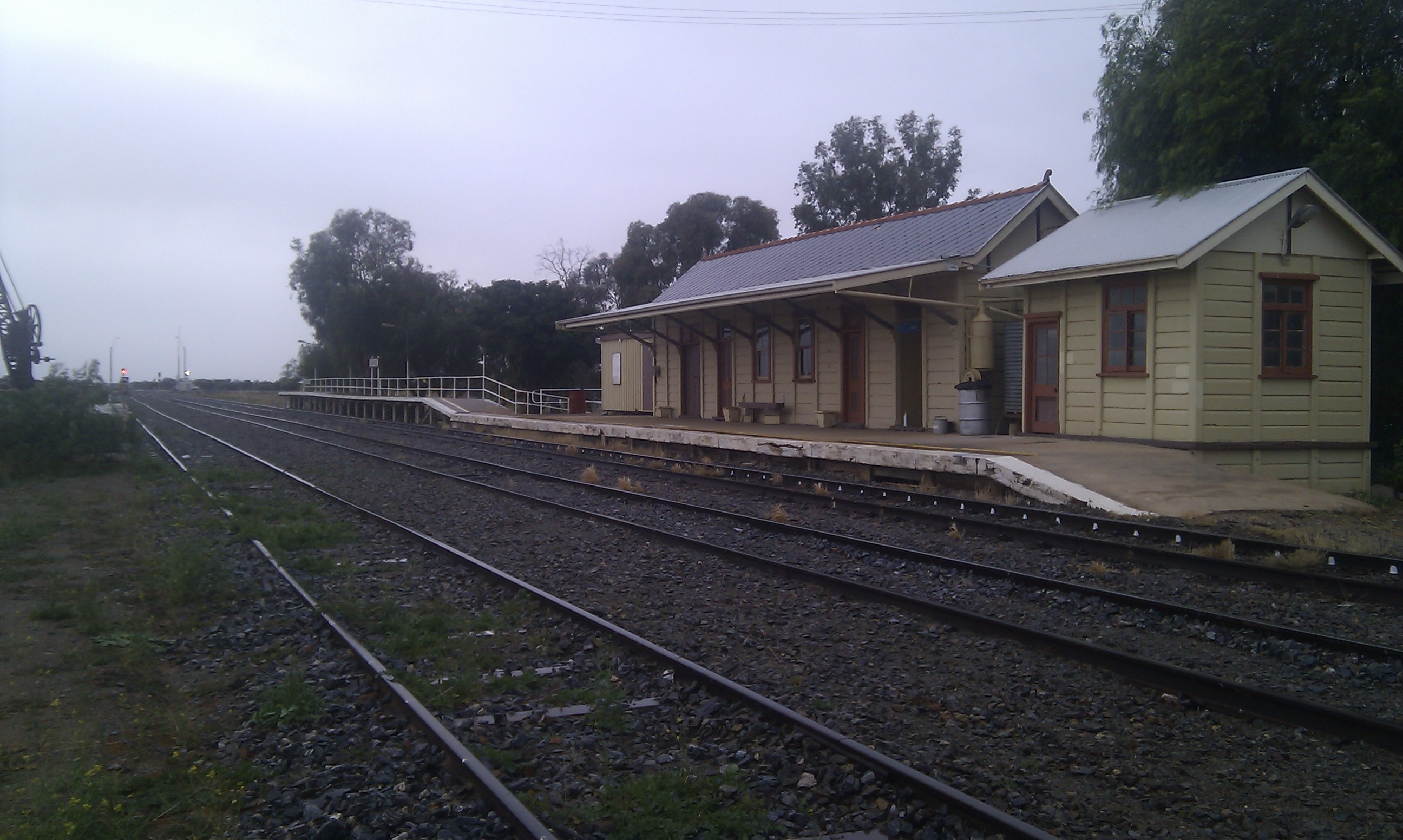 Railway station at Ivanhoe NSW, taken in 2011